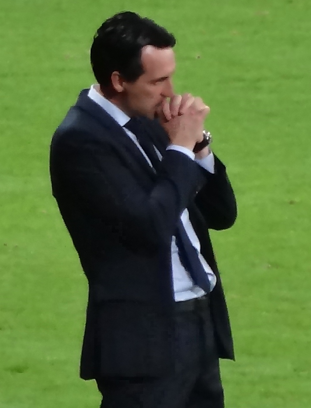 Jesé & Unai Emery